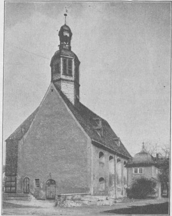 Aue: Lutheran Church, built 1625-29, broken down 1895.